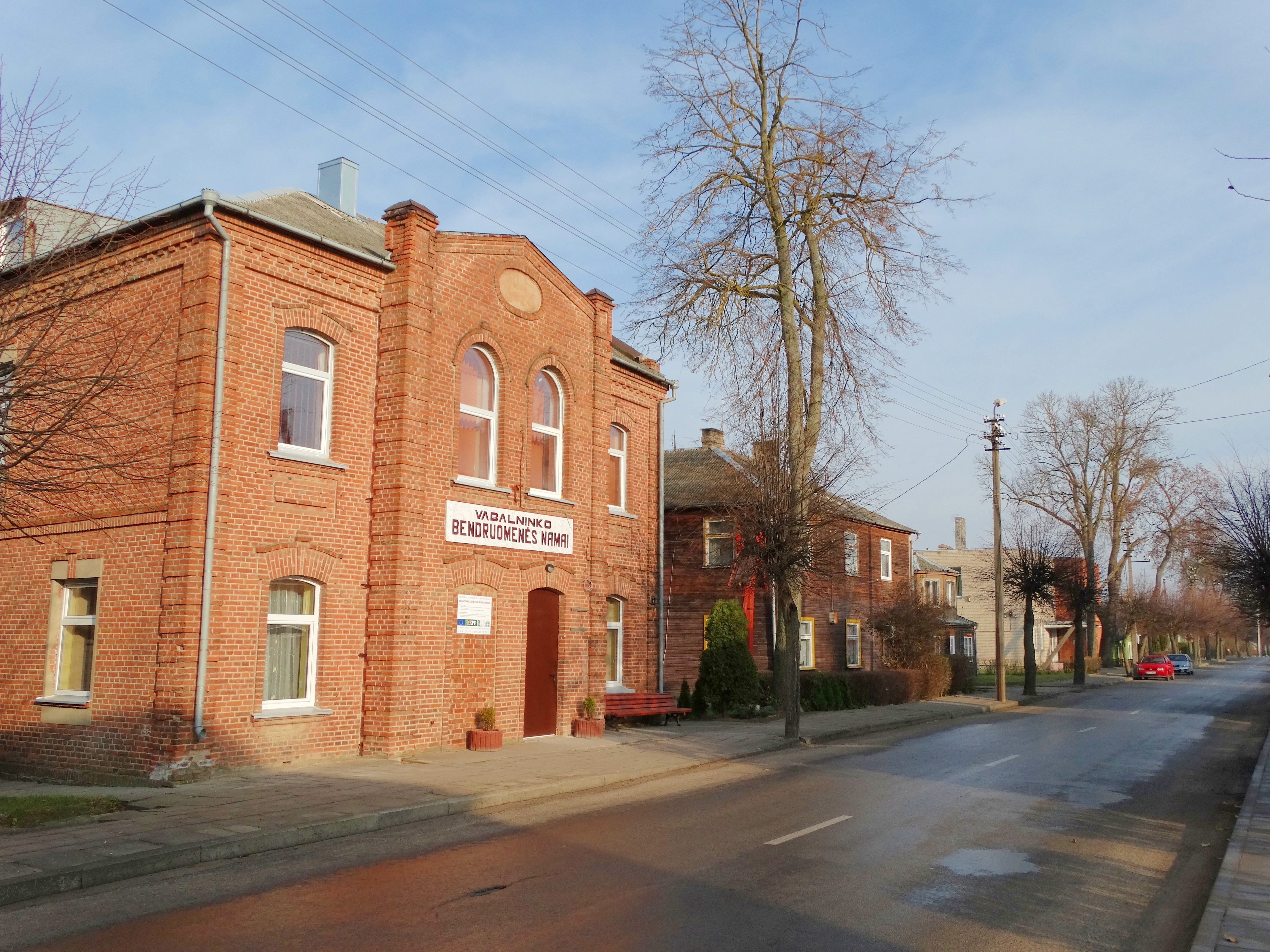 Community house, Vabalninkas, Lithuania